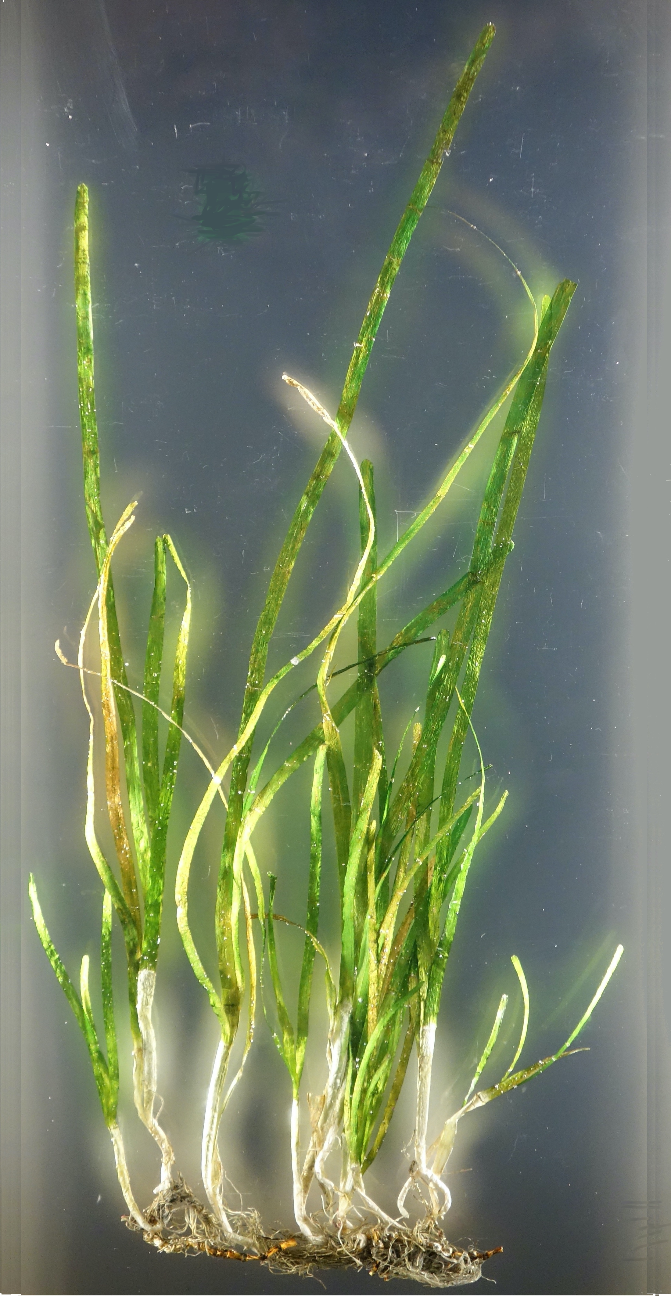 Exhibit in the National Museum of Nature and Science, Tokyo, Japan.